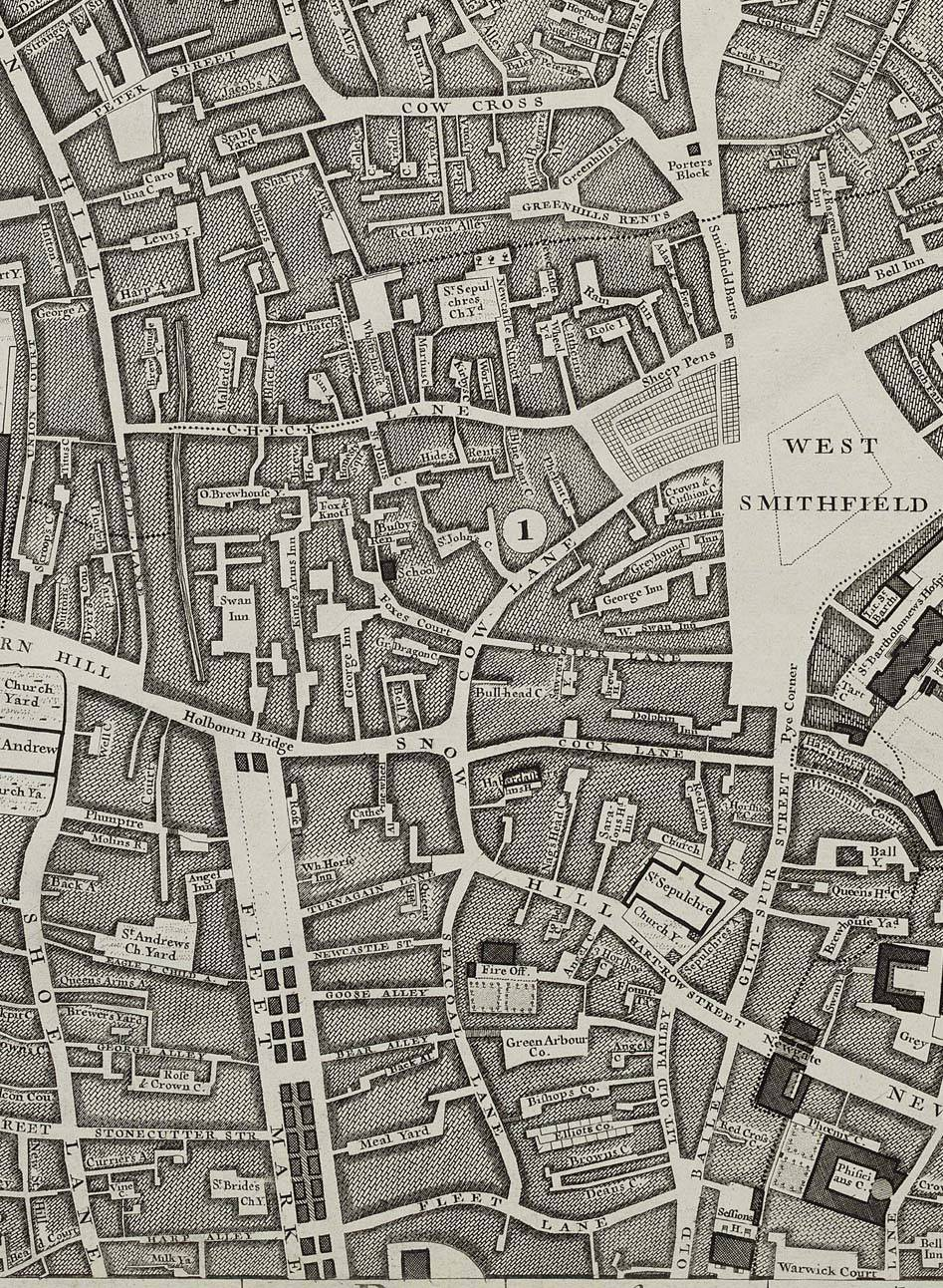 John Rocque's Map of London - 1746 John Rocque's map of London was published in the form of 24 sheets at a scale of 26in. to the mile. There were eight columns of three rows, a1 to h3.